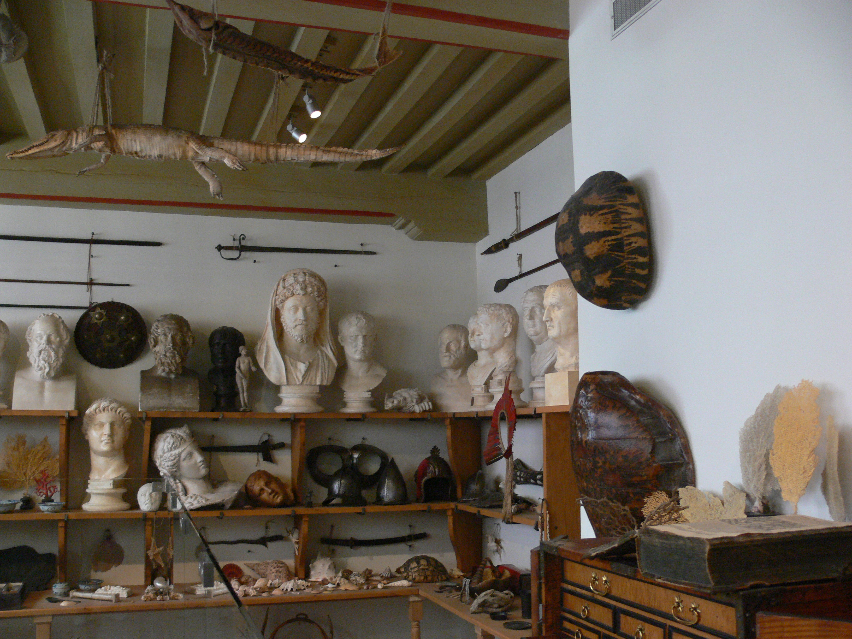 Amsterdam - Rembrandthuis - Rembrandt's cabinet of curiosities